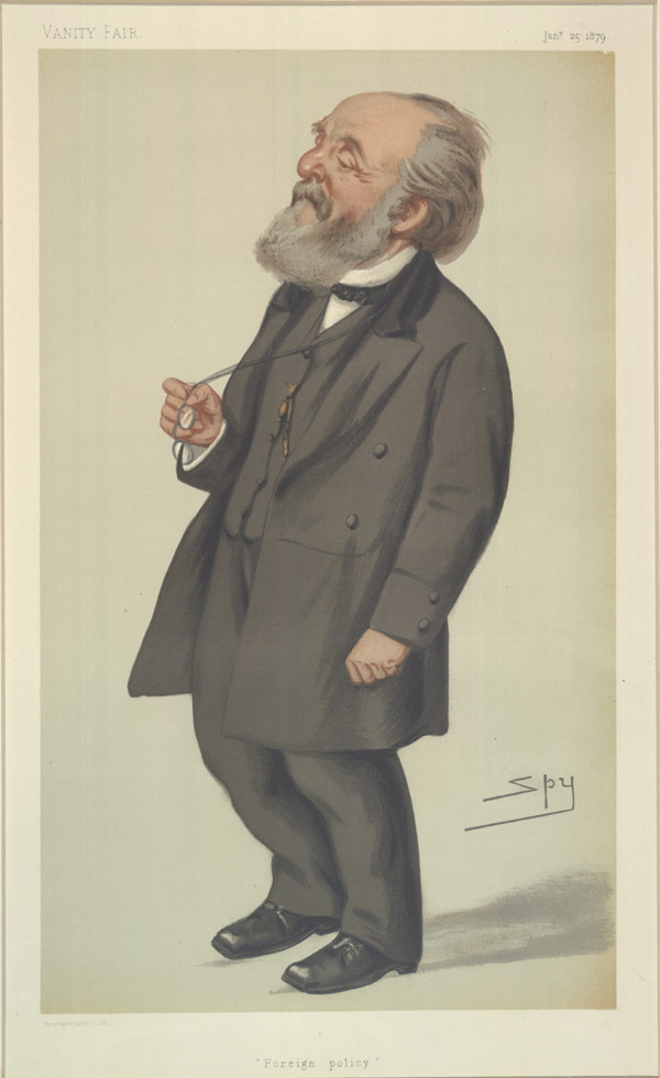 Statesman No.294: Caricature of Mr Peter Rylands MP. Caption reads: "Foreign Policy"